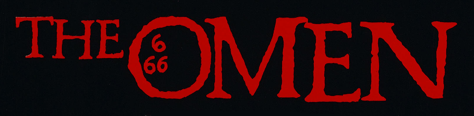 Official logo of the movie The Omen.